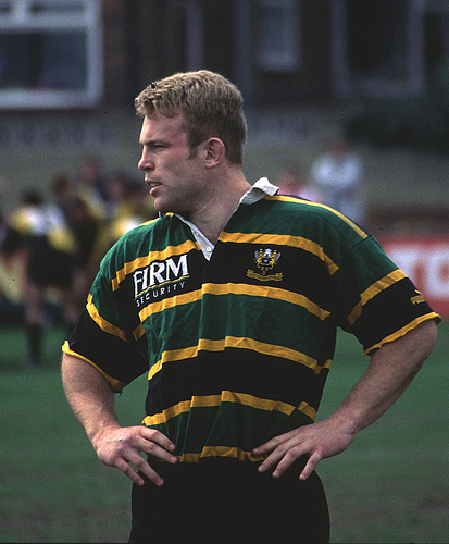 Tim Rodber, Northampton, England and British Lions.Photograph taken at the Wakefield vs Northampton match, Courage League Division 2, 1995/96 Season